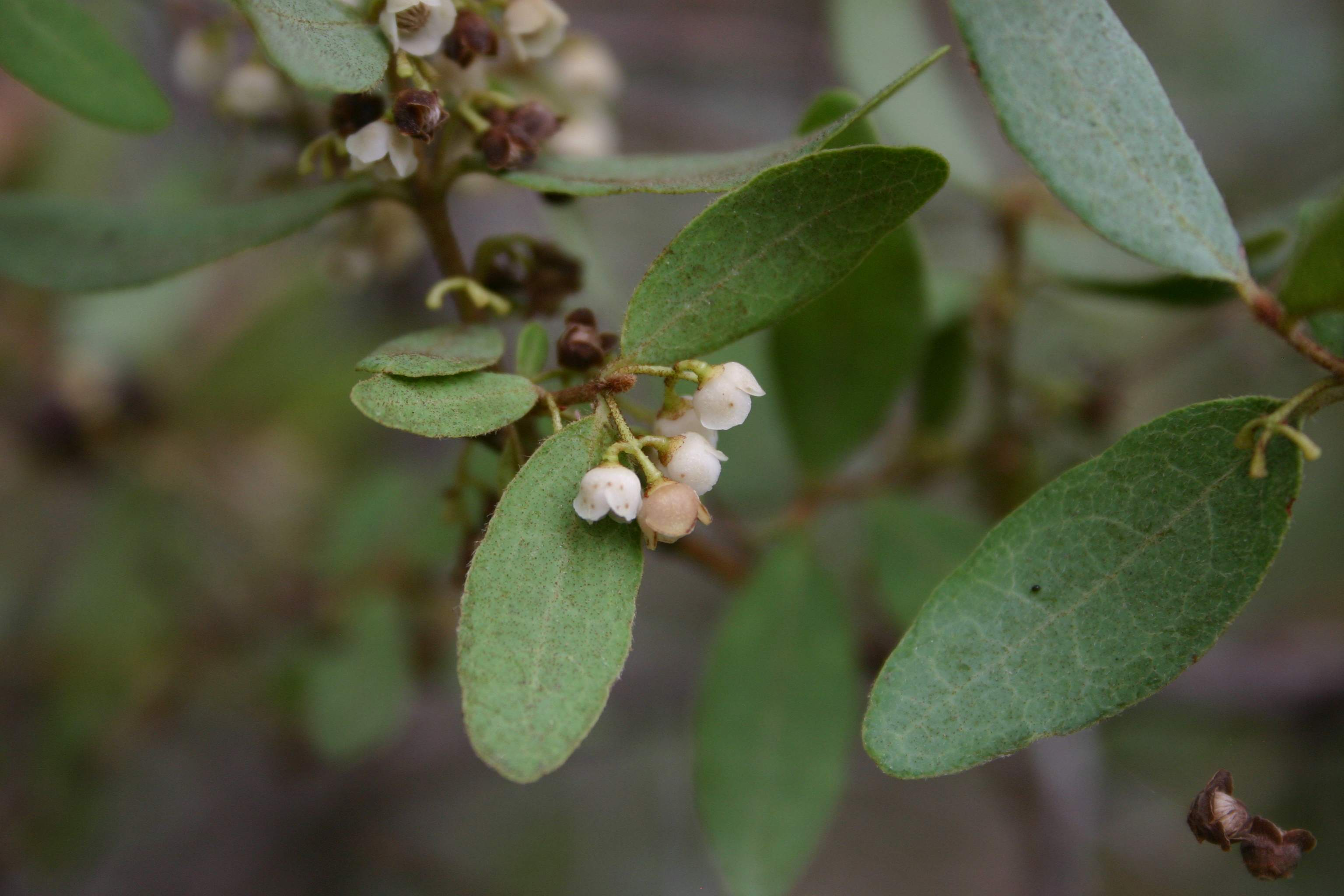 Blue guarri flowers and foliage at Hamerkop near Sparkling Waters, Magaliesberg, South Africa